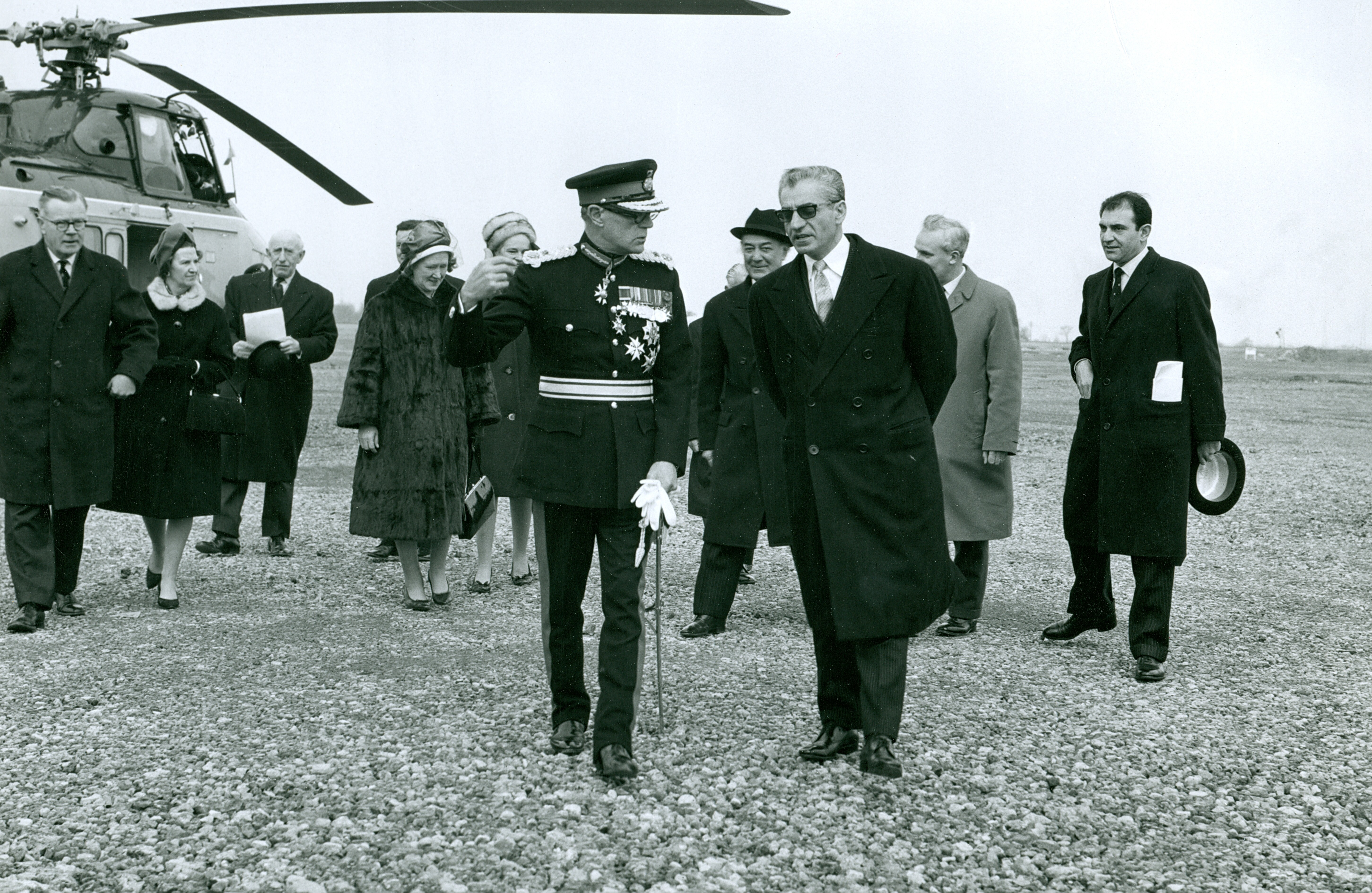 Shah of Iran visiting West Burton Power Station on 6th of March 1965 with Sir Robert Laycock Lord Lieutenant of Nottinghamshire arriving in a Westland Whirlwind XR487 of the Queens Flight.